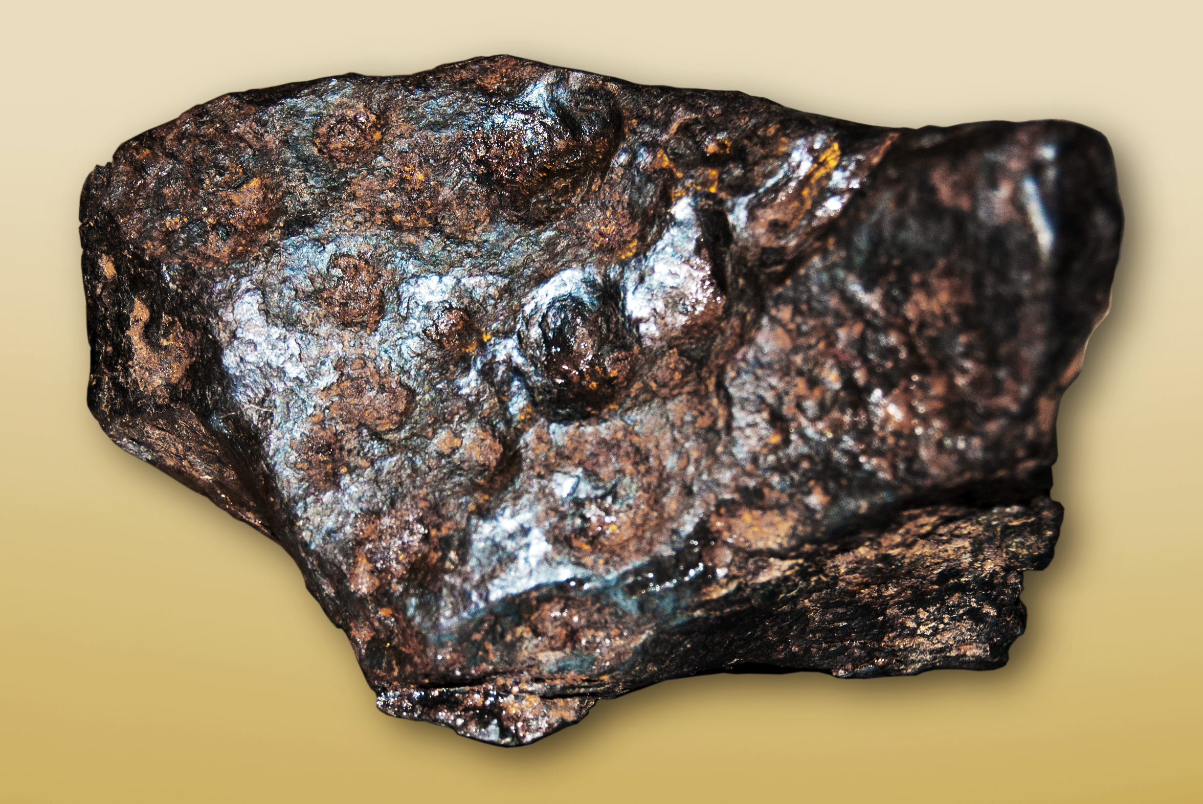 Meteorite fragment from the Cañon Diablo Meteorite, an iron-nickel meteorite about 50 meters (55 yards) across that formed Meteor Crater located approximately 43 miles (69 km) east of Flagstaff (near Winslow) in the northern Arizona desert of the United States. It is estimated that this object hit the earth about 50,000 years ago during the Pleistocene epoch. 90mm